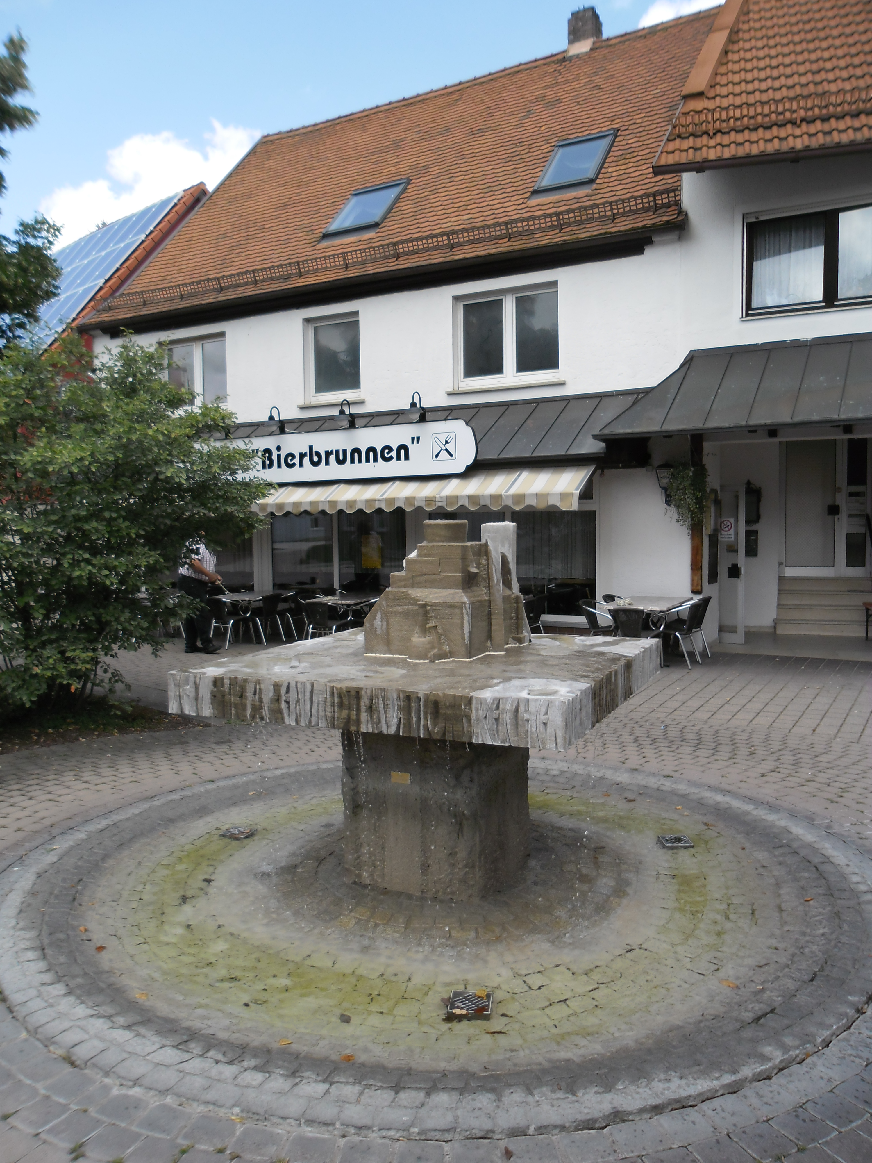 Fountain in front of a pub in Schopfloch (Middle Franconia)